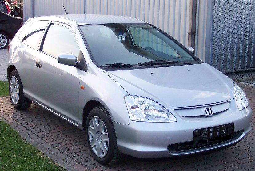 Honda Civic